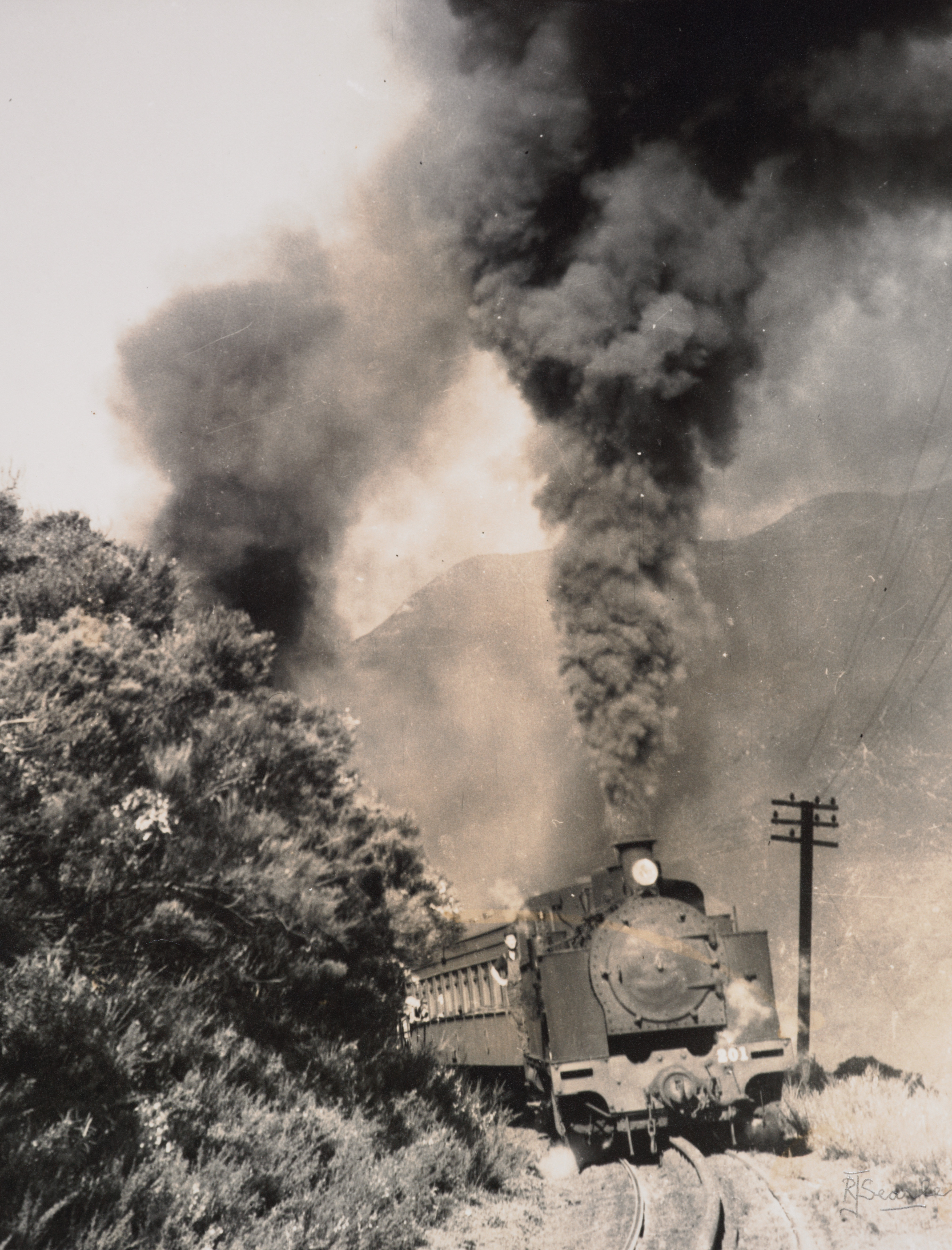 Lead engine and its passenger train by Roland Searle (1904-1984) of unknown date. Rimutaka Incline Fell railway between Featherston and Cross Creek New Zealand. It was hard work for the passengers too